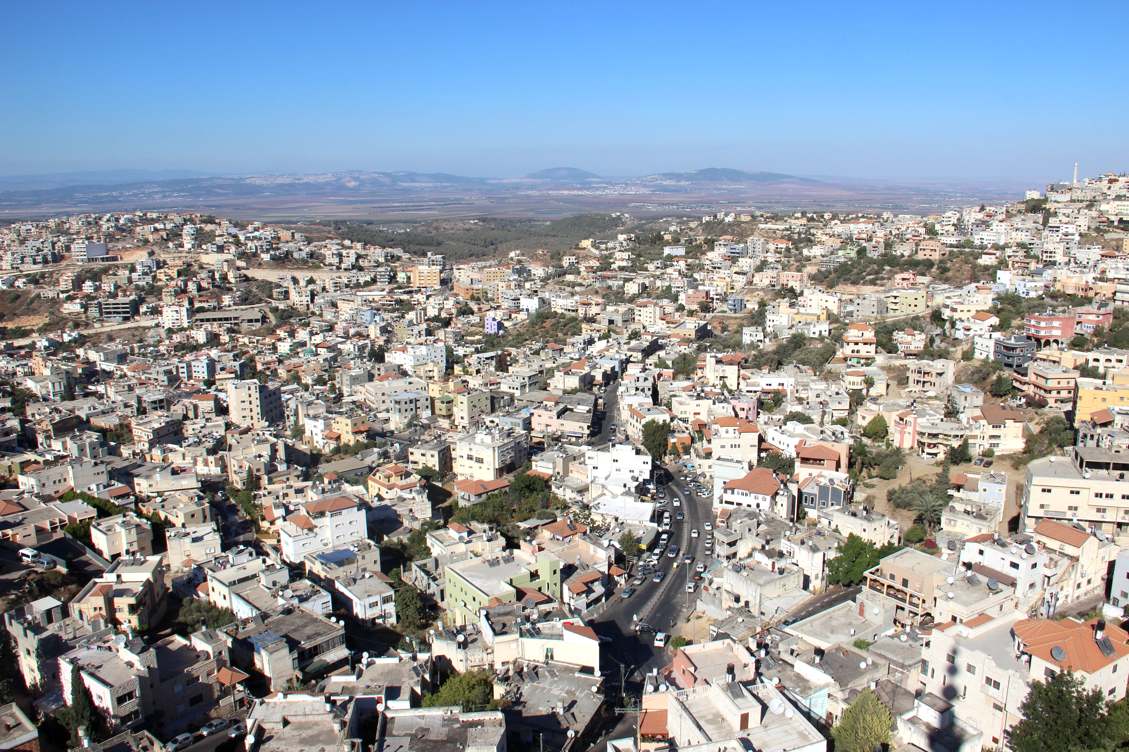 Umm al-Fahm, Haifa, Israel September 8, 2013 Photo by: Mo'ataz Tawfek Egbaria